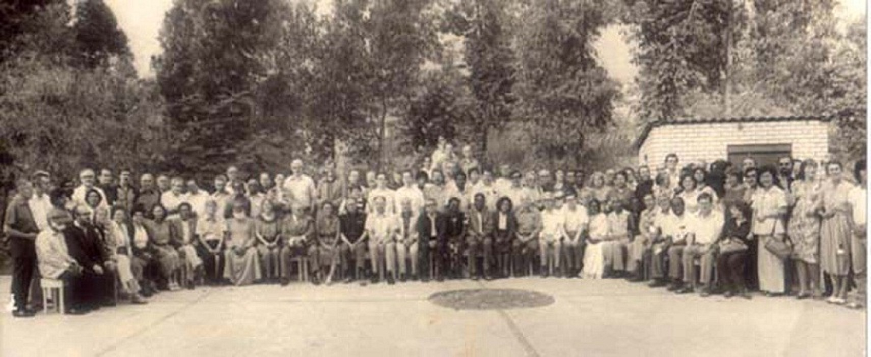 The Faith and Order Commission of WCC world meeting in 1982 at Lima, Peru. In this assembly the famous BEM document was released.